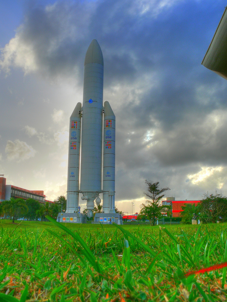 A model at the entrance to the Centre spatial guyanais. Less psychedelic version (with less red) here.